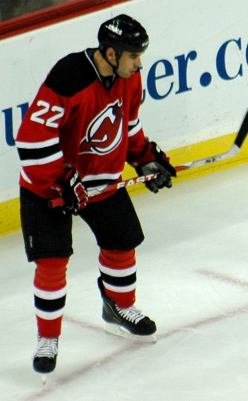 Pierre-Luc Létourneau-Leblond plays with Devils against Chicago